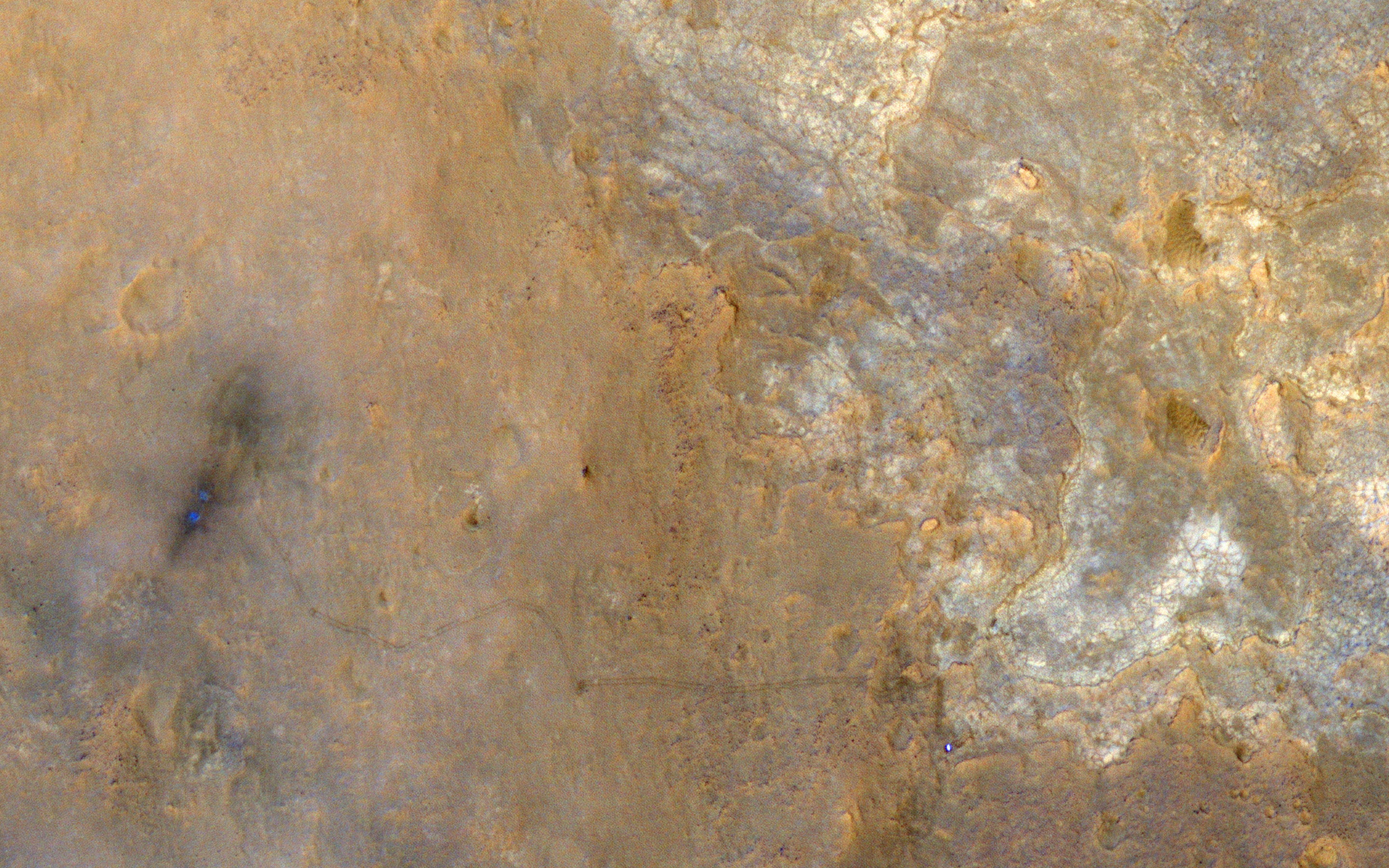 A Unique View of Curiosity Rover in Yellowknife Bay - This image was acquired with a large spacecraft roll to the east when the subsolar latitude was -7.26 degrees, close to the latitude of MSL (-4.6 degrees), resulting in an image with the sun, the MRO spacecraft, and the MSL Curiosity rover on the surface all aligned in nearly a straight line (phase angle of just 5.47 degrees). This geometry hides shadows and better reveals subtle color variations. With enhanced colors, we can view the region around the landing site and Yellowknife Bay. The rover is the very bright spot near the lower right. The rover tracks stand out clearly in this view, extending west to the landing site where two bright, relatively blue spots indicate where MSL's landing jets cleared off the redder surface dust. The rover is now driving south towards the large mound in Gale Crater officially named Aeolis Mons and also called "Mount Sharp."